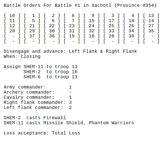 Image of example command sheet for an invasion in the game Hyborian War.